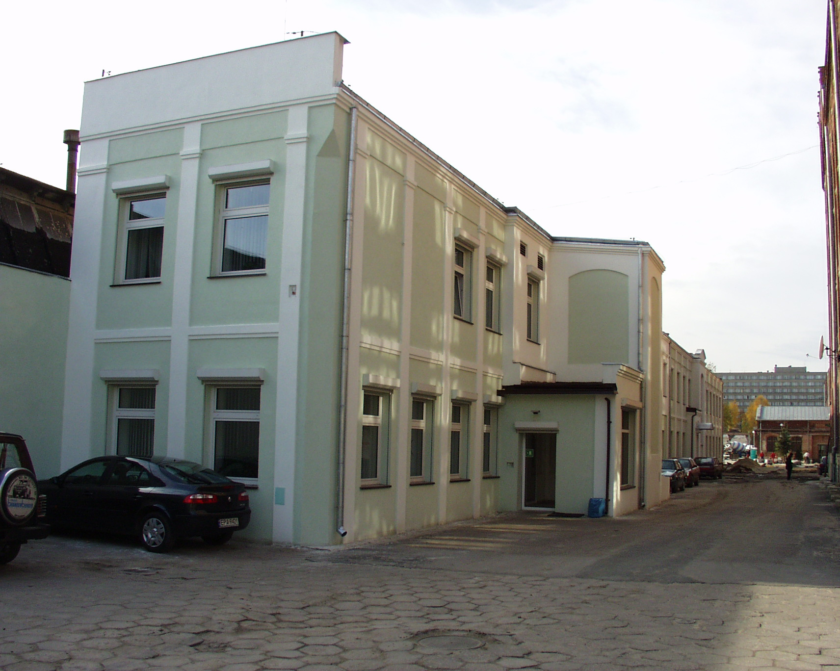 Bulding of Laser Diagnostics and Therapy Centre of the Lodz University of Technology